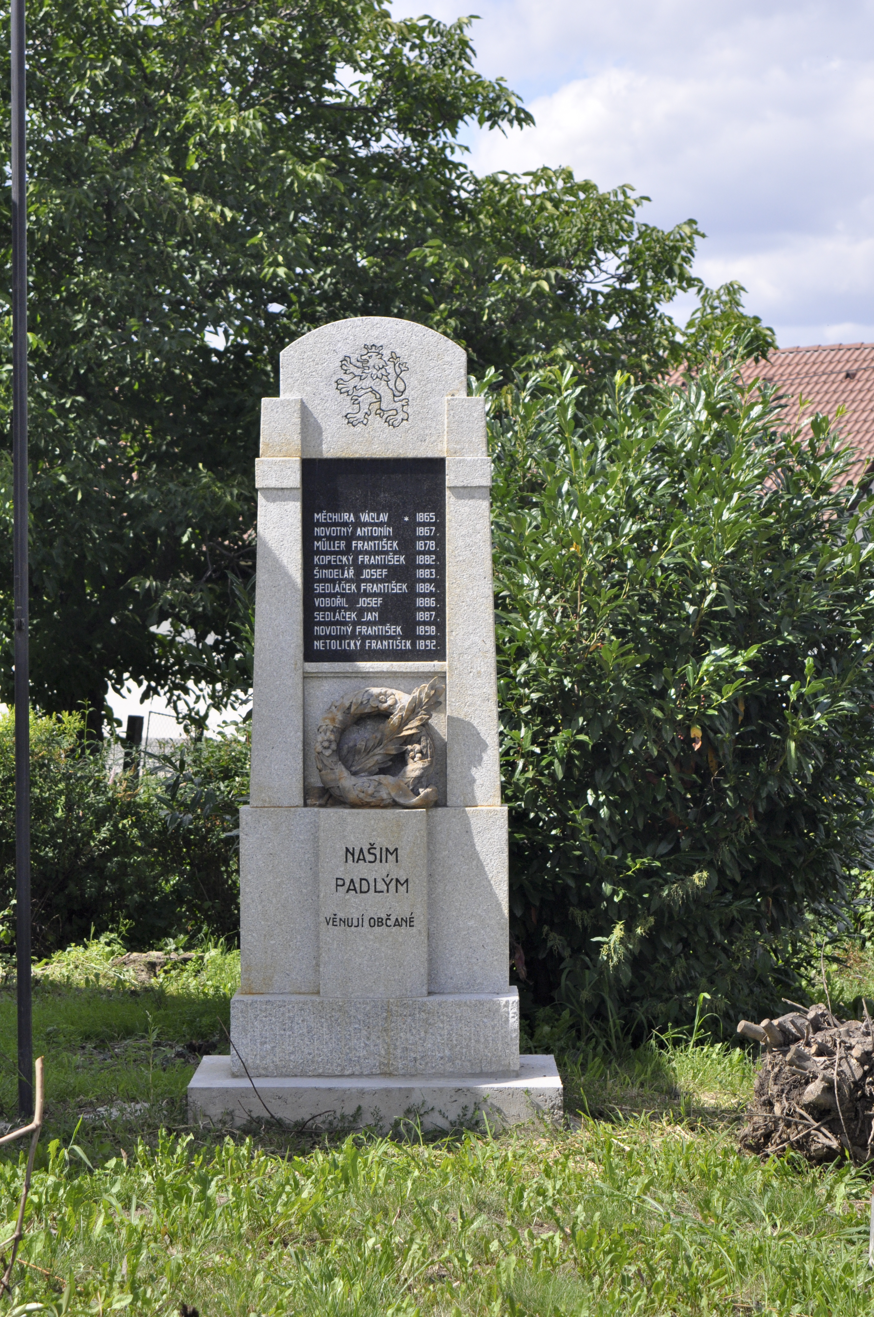 Strašín (Říčany), WW I victims memorial